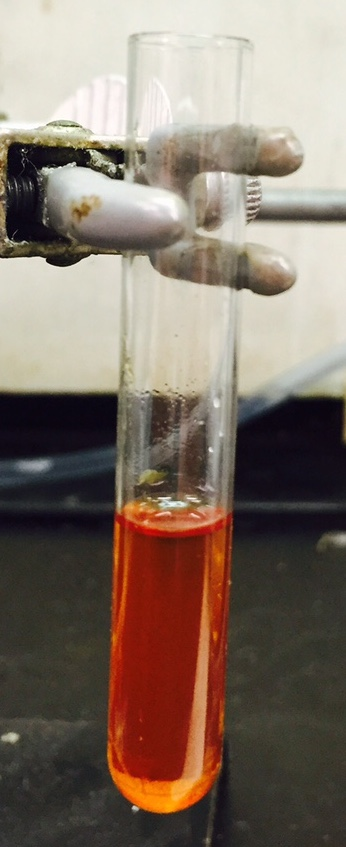 The inorganic compound: iron(o) pentacarbonyl [Fe(CO)5], as a orange liquid at room temperature, in air. Photographed at the University of Illinois at Urbana–Champaign.